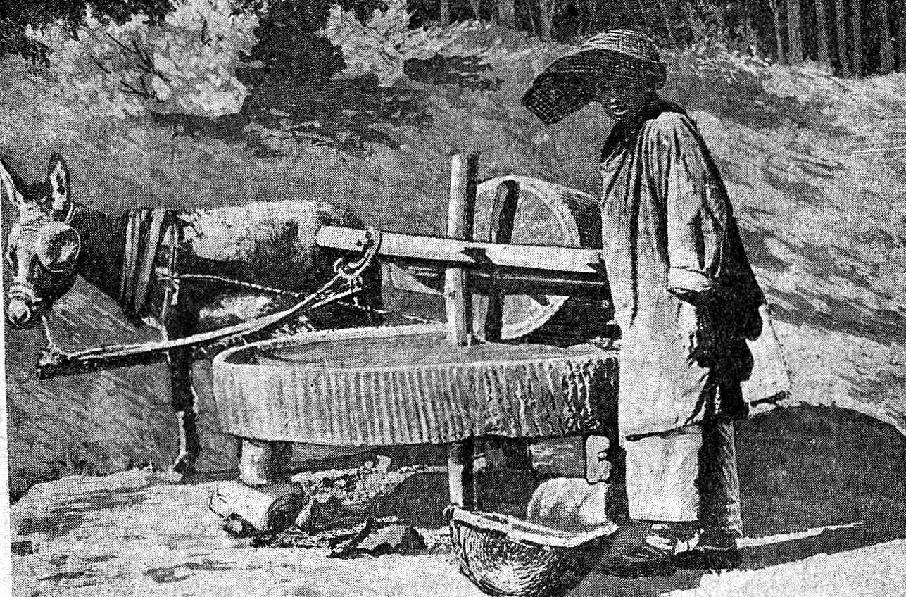 Mill in Henan (China, 1930)